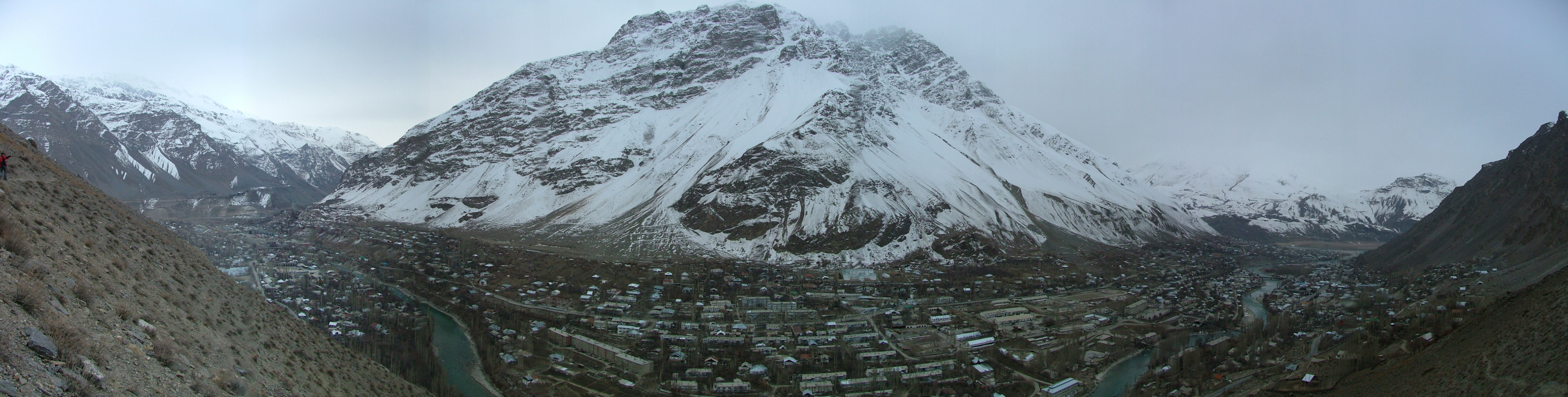 Panorama of Khorog, Tajikistan from north of the city